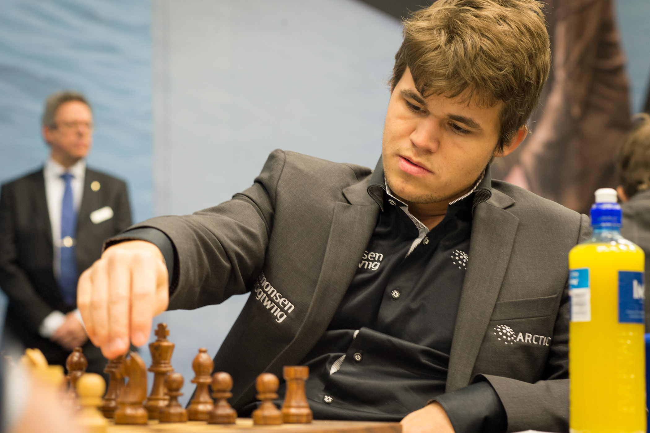 Chess Grandmaster Magnus Carlsen, No. 1 rated in the world, in play in round seven of the Tata Steel tournament in Wijk aan Zee, The Netherlands.